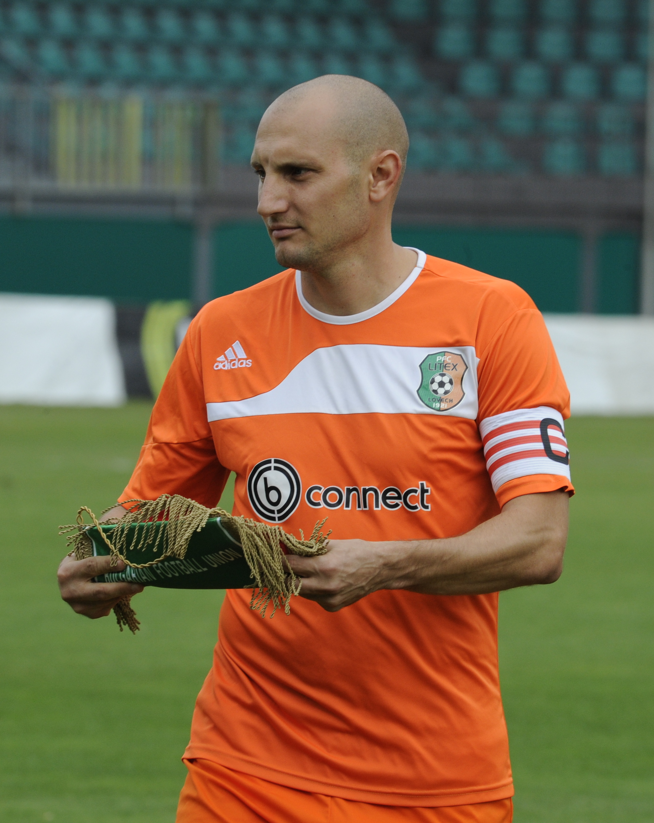 Nebojša Jelenković, footballer, Litex Lovech (Litex Lovech - Bulgaria U21 3:0 12.10.2012)